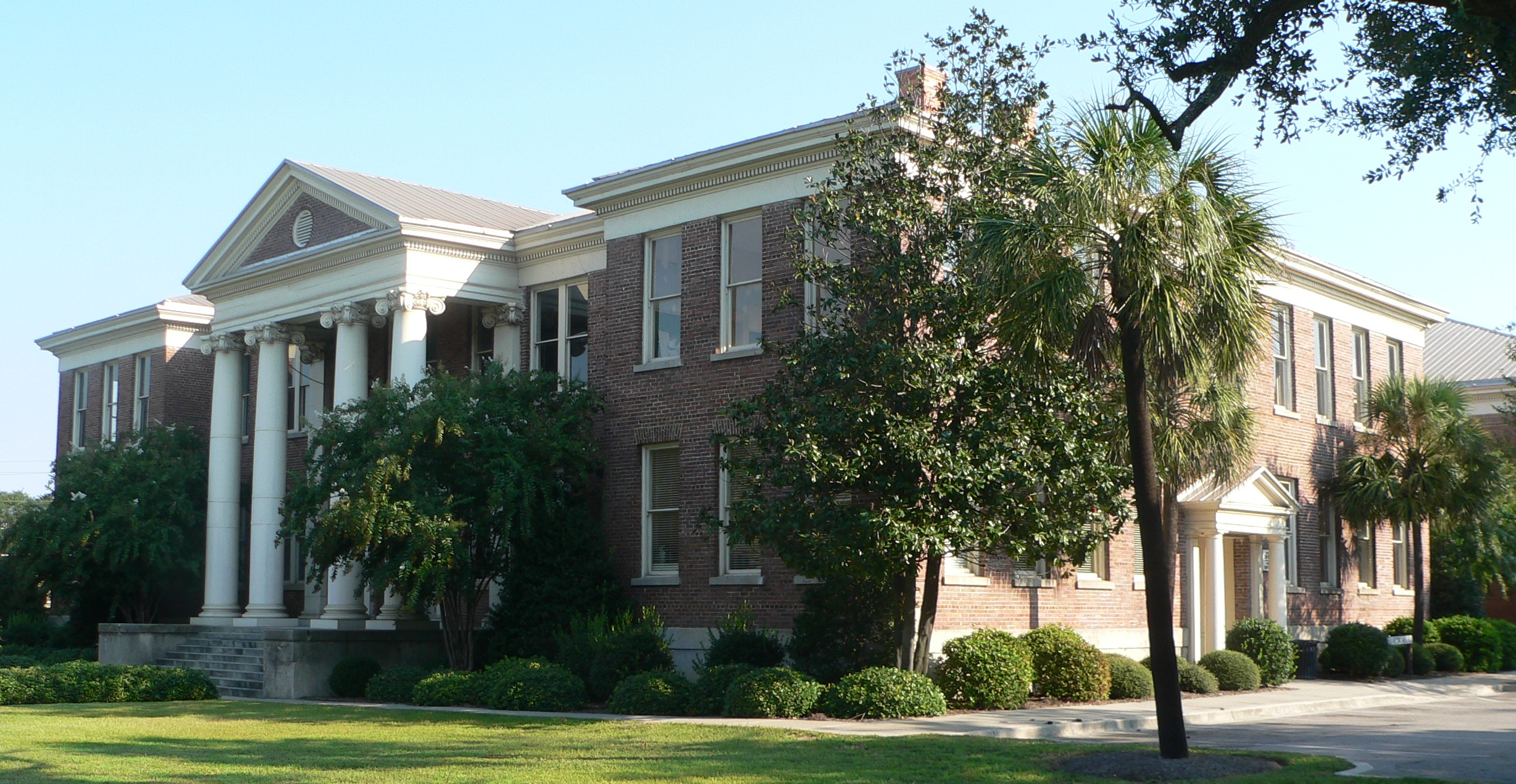 Winyah Indigo School, located at 1200 Highmarket Street in Georgetown, South Carolina.